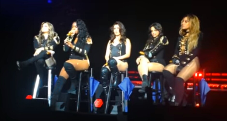 American group Fifth Harmony performing during their second concert tour the 7/27 Tour in Providence, RI.